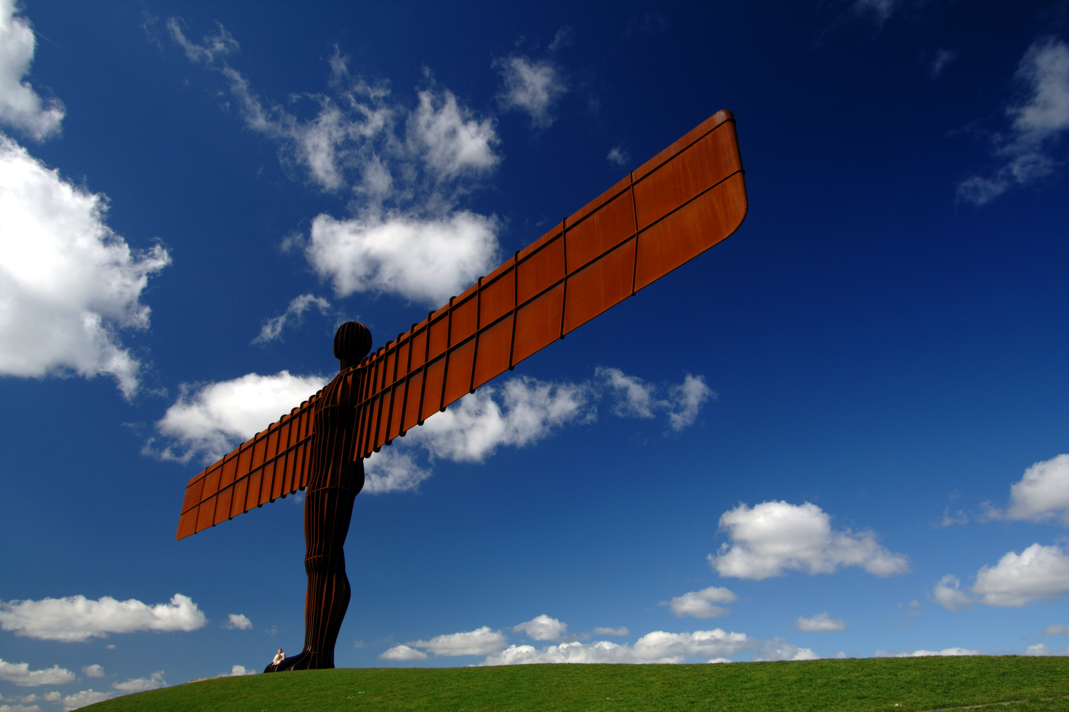 The Angel of the North near Gateshead, Tyne & Wear, England.